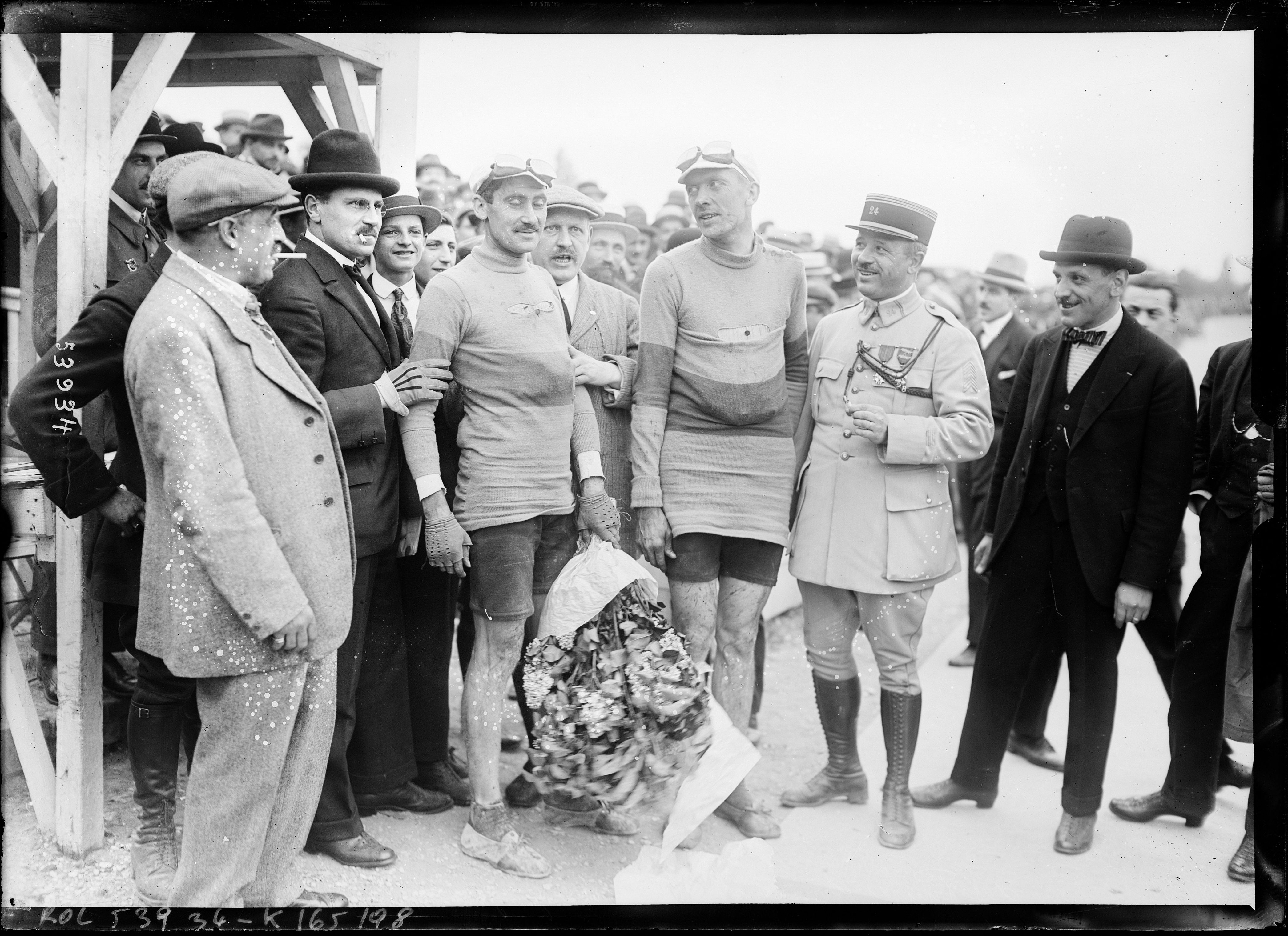 Henri Pélissier winner of the Bordeaux-París